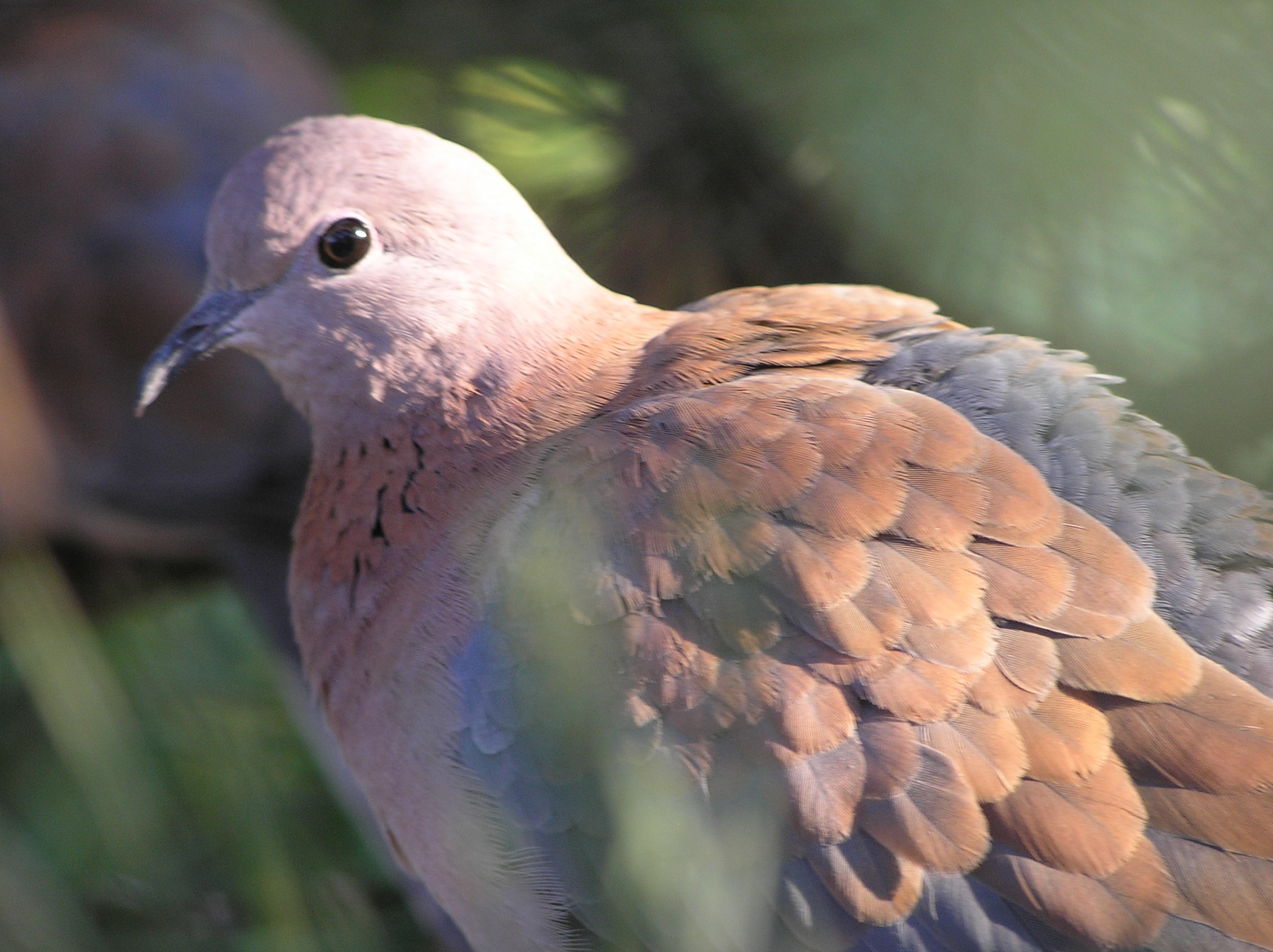 senegal tortel / Streptopelia senegalensis